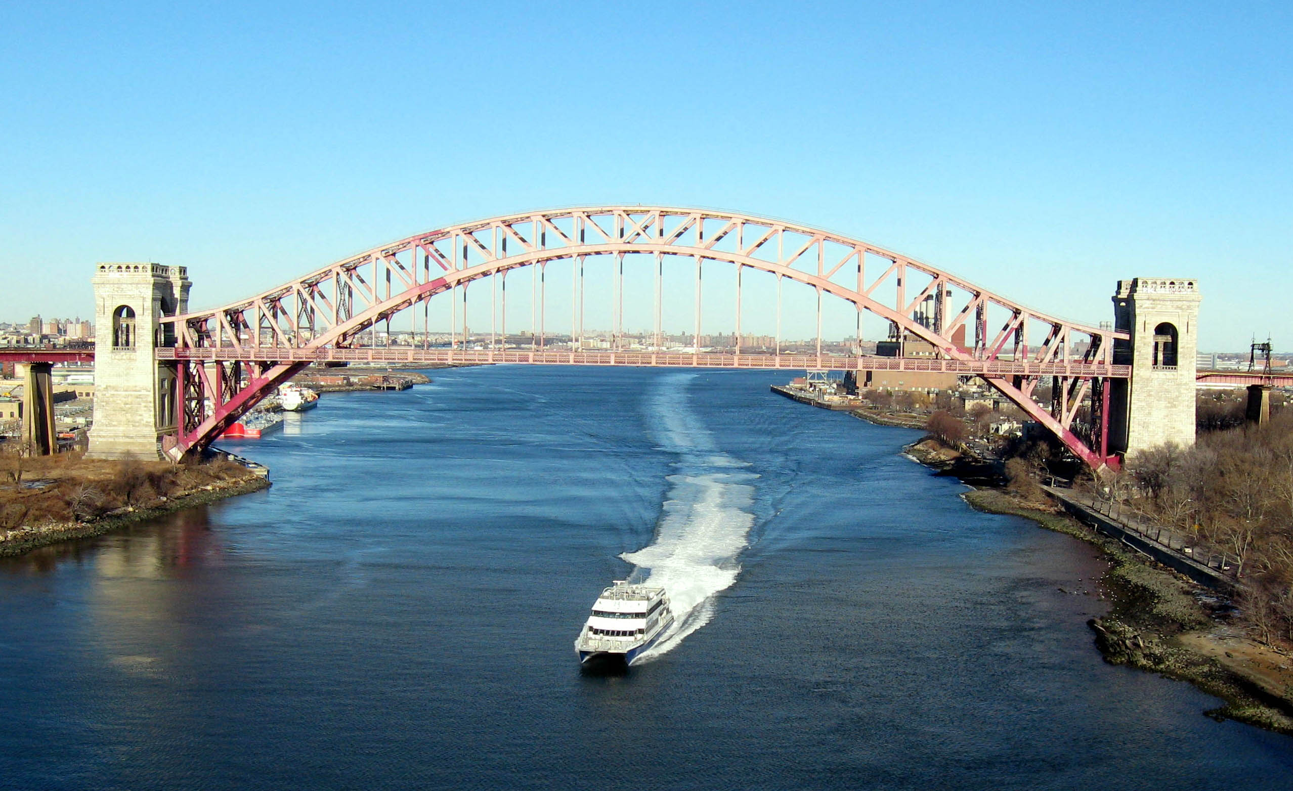 Looking east as a SeaStreak ferry passes westward under Hell Gate Bridge on a mostly clear early afternoon.